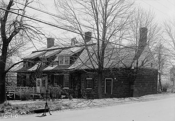 Brinkerhoff-Demarest House